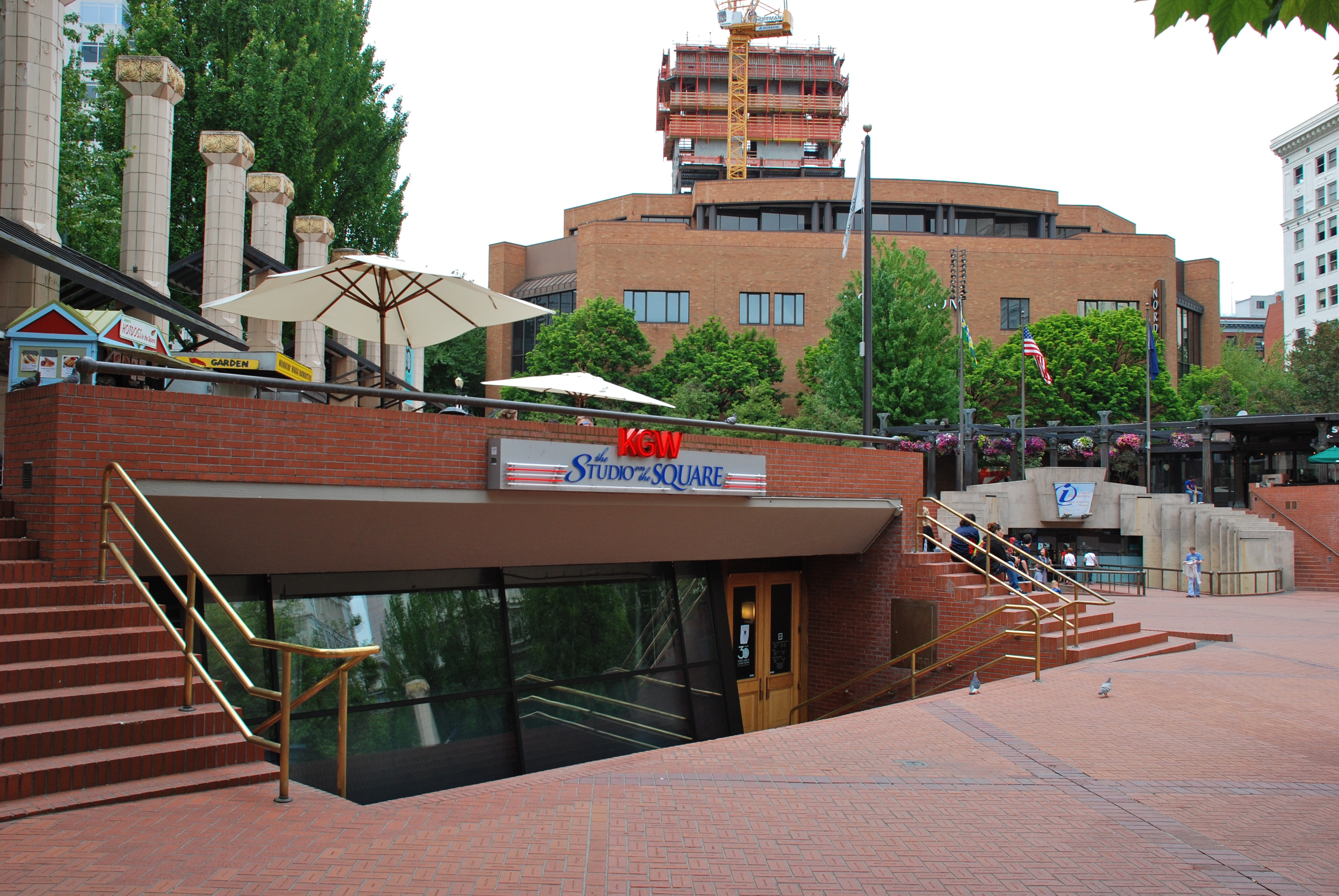 KGW-TV's "Studio on the Square", located at the south/southeast corner of Pioneer Courthouse Square, in Portland, Oregon. The studio opened in 2009, in space previously occupied by Powell's Travel Store (a travel-oriented branch of Powell's Books).